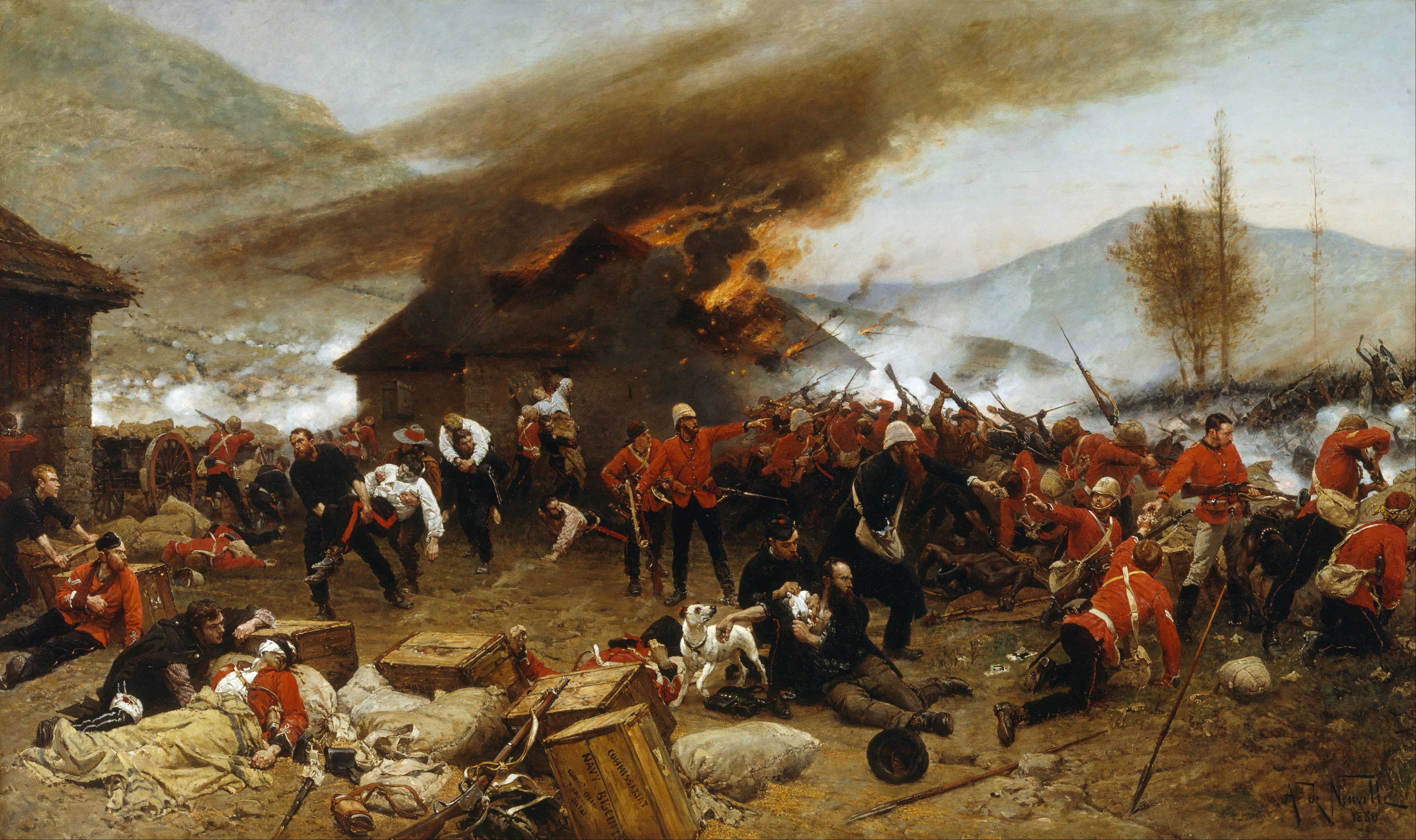 Painting of the Battle of Rorke's Drift which took place in Natal during the Anglo-Zulu War in 1879. De Neuville based the painting on eye witness accounts and it depicts several events of the battle occurring at once. Defenders depicted in the painting: Lieutenant John Chard (to the right at the barrier in pale breeches with rifle) Corporal Scammell of the Natal Native Contingent incorrectly shown in the uniform of the 24th or Corporal William Allen (handing cartridges to Chard) Corporal Ferdinand Schiess (wearing a bandoleer and stabbing a Zulu at the barrier with his bayonet) Chaplain George Smith (bearded man handing out cartridges from a haversack) Acting Assistant Commissary James Dalton (sat in foreground with a wounded shoulder) Surgeon James Reynolds (attending to Dalton's wound) Lieutenant Gonville Bromhead (standing in the centre of the painting pointing to his left) Private Frederick Hitch (standing behind Bromhead) Private Henry Hook (carrying Private John Connolly on his back away from the burning hospital) Assistant Commissary Walter Dunne (to the left holding a biscuit box) (Sources: David, Saul [2005] Zulu: The Heroism and Tragedy of the Zulu War of 1879 ISBN 9780141015699; Knight, Ian [1996] Rorke's Drift 1879: 'Pinned Like Rats in a Hole' ISBN 9781855325067)